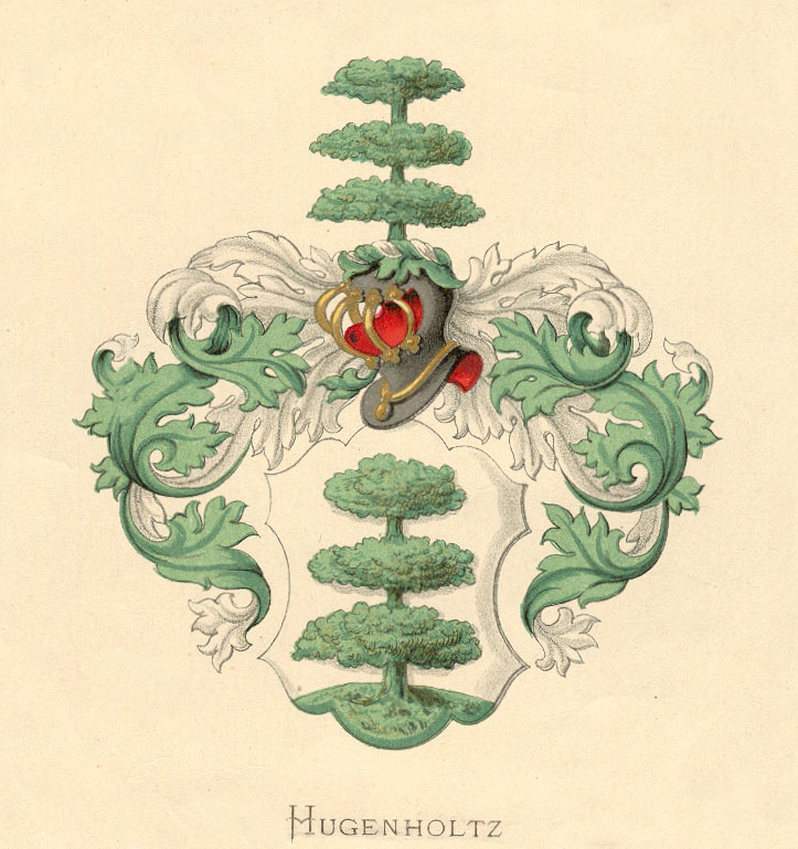 Coat of arms of the Hugenholtz family